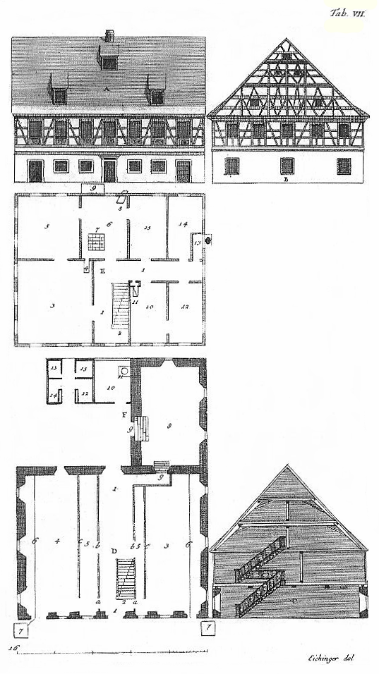 Farm house from the German region of Hohenlohe as described by pastor Johann Friedrich Mayer.